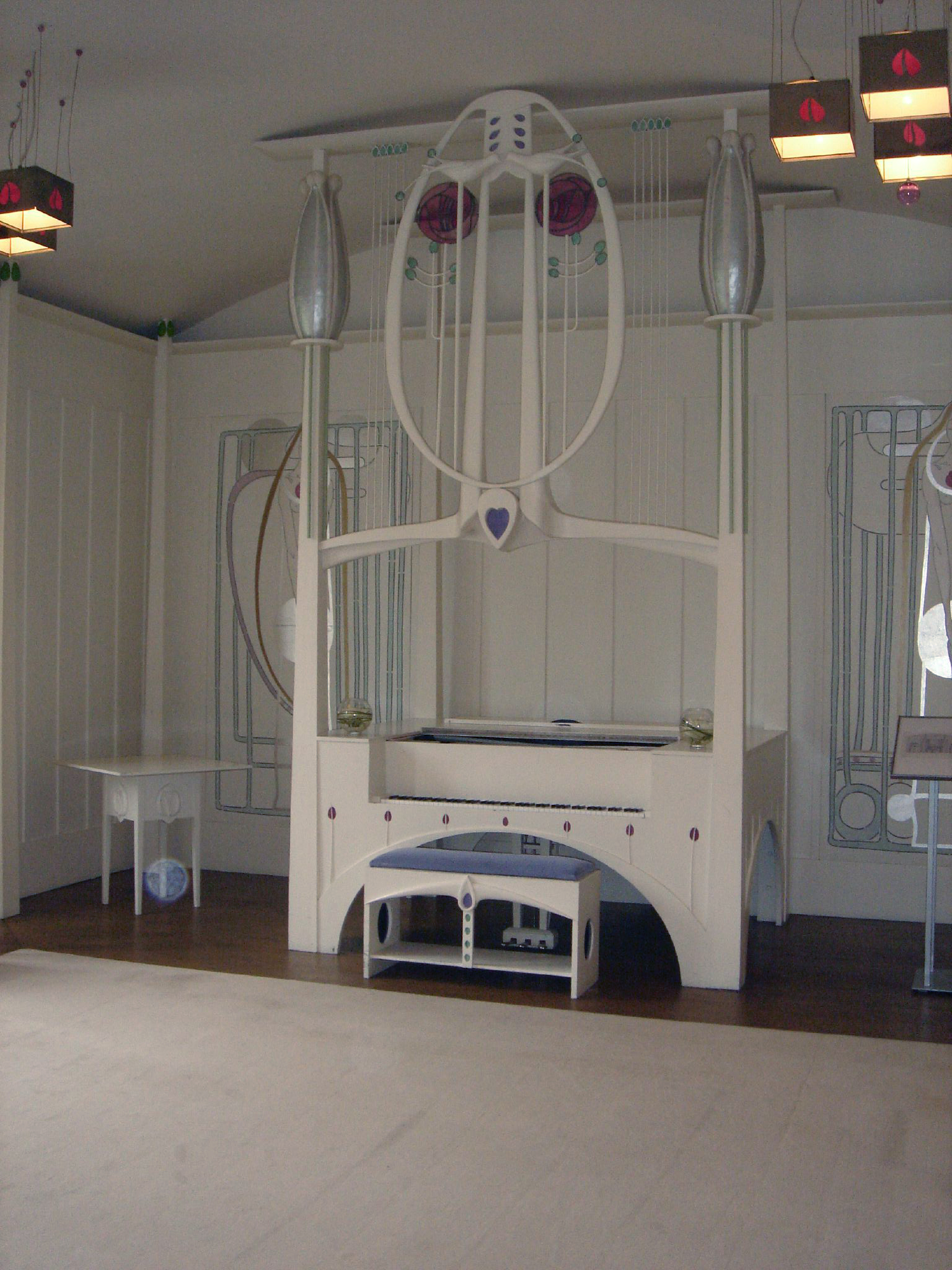 The music room at House for an Art Lover.